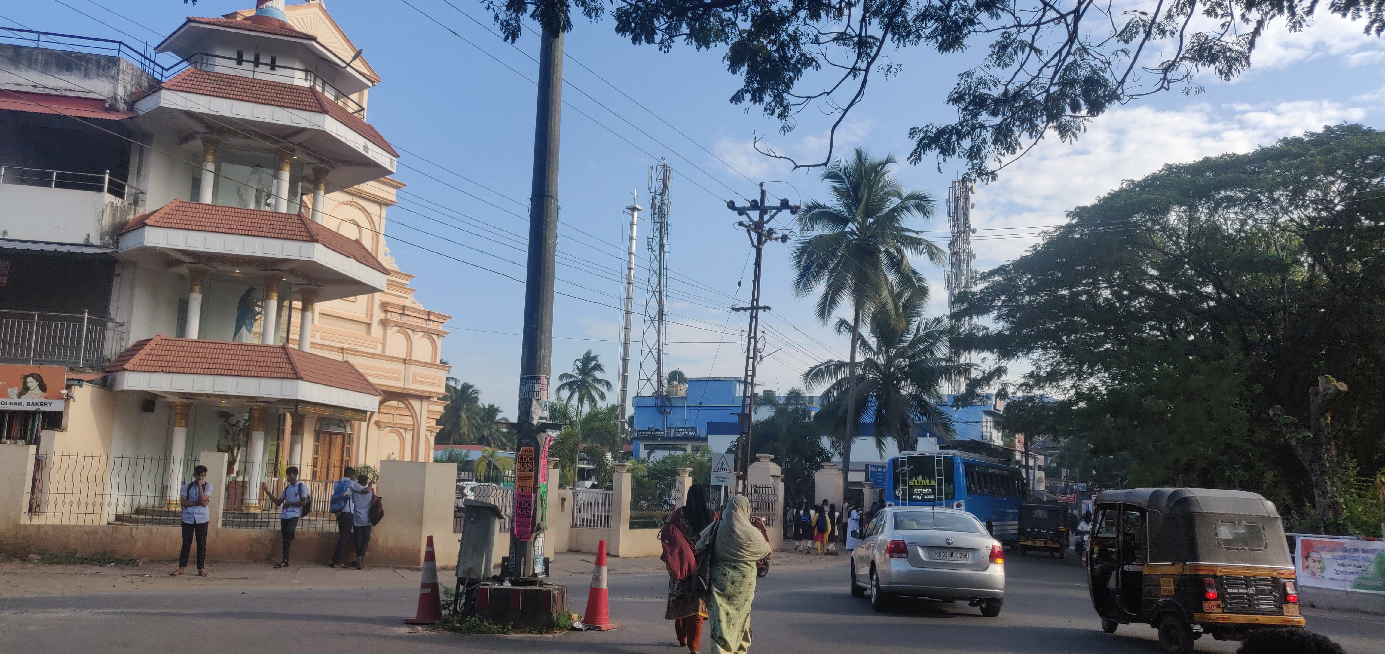 Pallimoola near Ramavarmapuram, Thrissur, Kerala, India